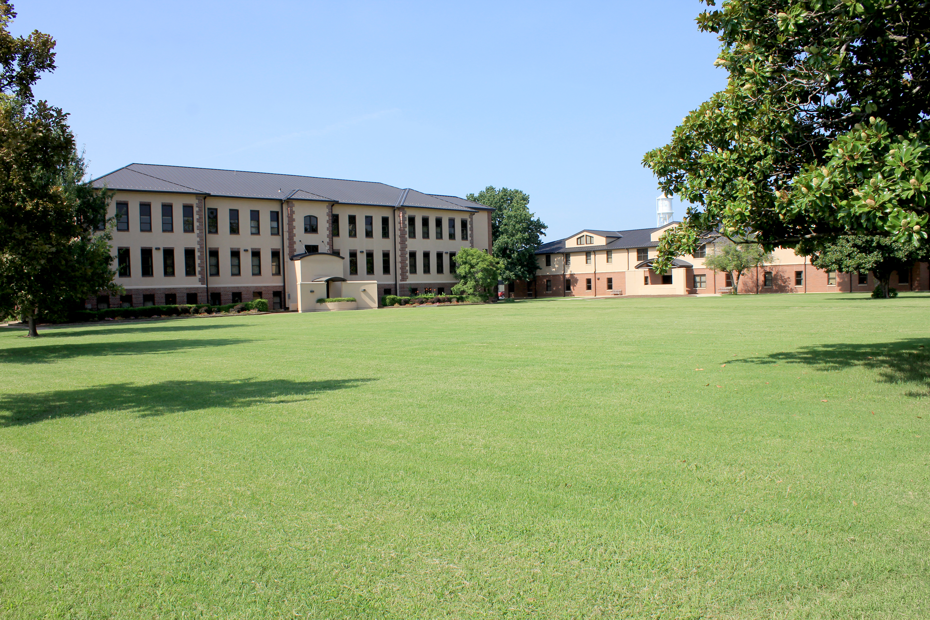 Administration with North Lawn at Murray State College